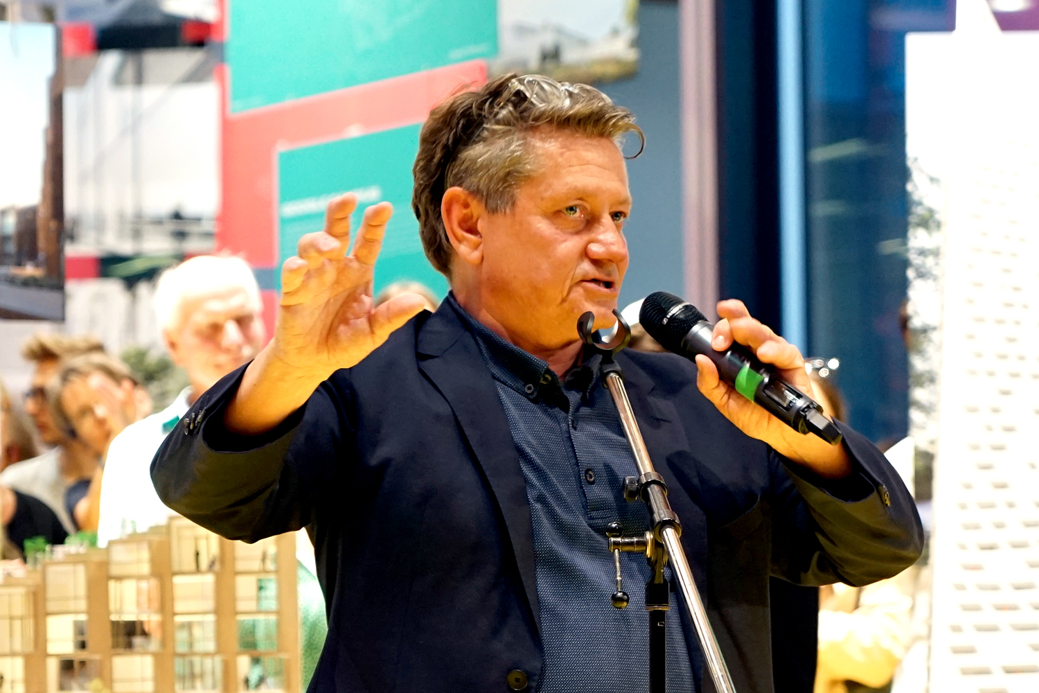 Kent Martinussen - Danish architect and managing director of Danish Architecture Centre - at an exhibition of projects from Bjarke Ingels Group (BIG) at Danish Architecture Centre, Copenhagen, Denmark - June 2019